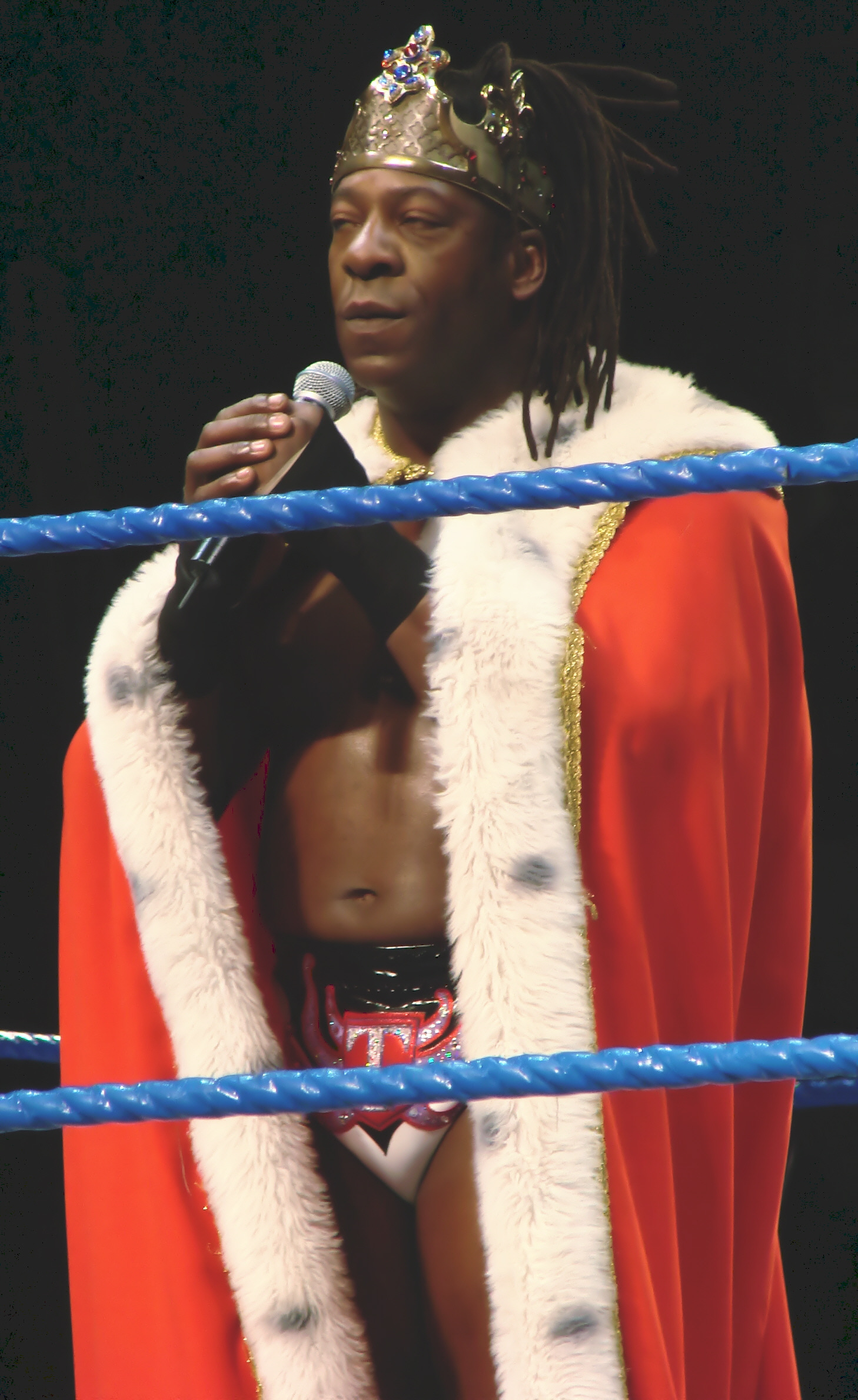 King Booker at a SmackDown! live event at the Assembly Hall in Champaign, IL on February 4, en:2007.